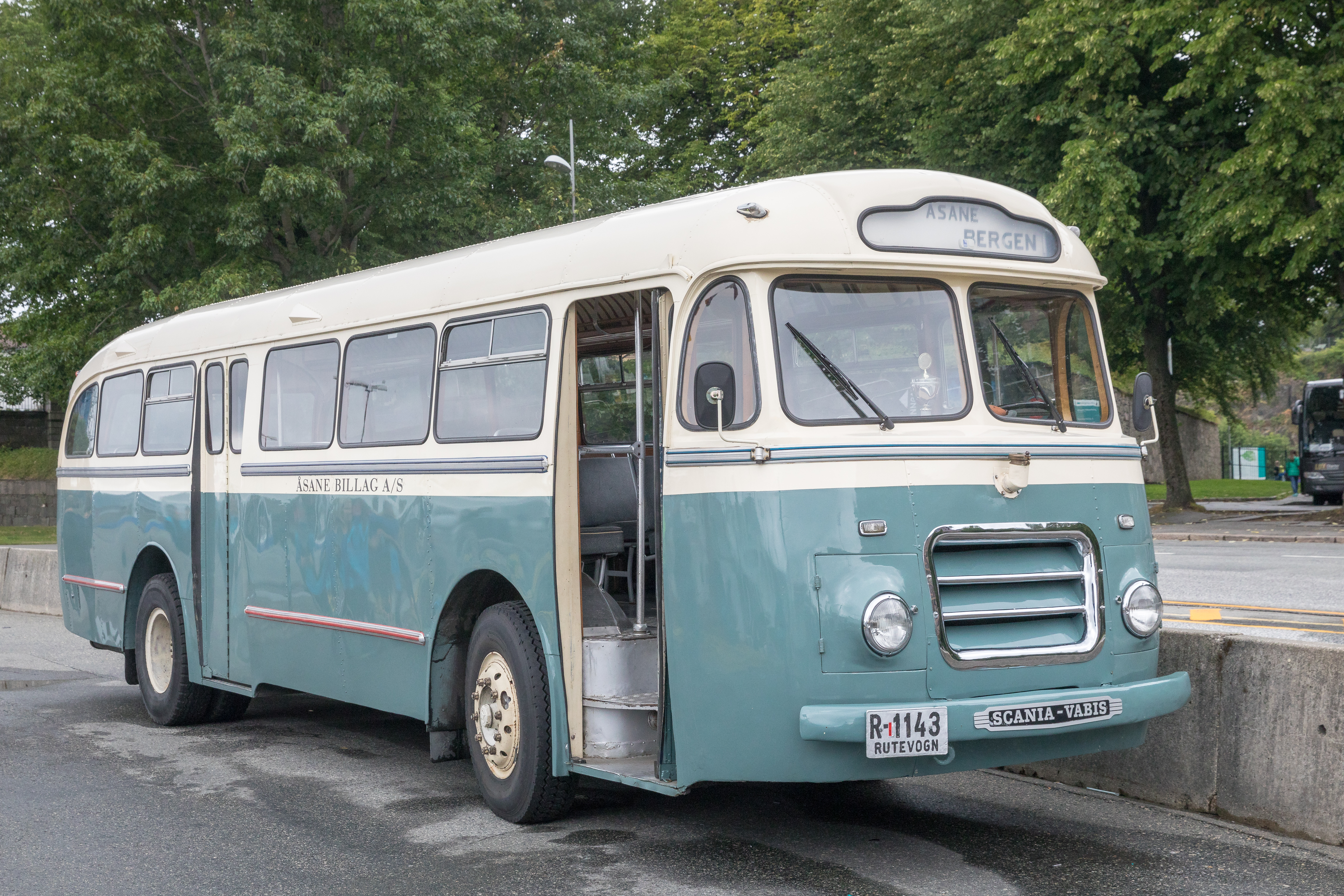 Vintage vehicles at Fjordsteam 2018. The maritime heritage festival took place between August 2 and August 5 2018 in Bergen, Norway.